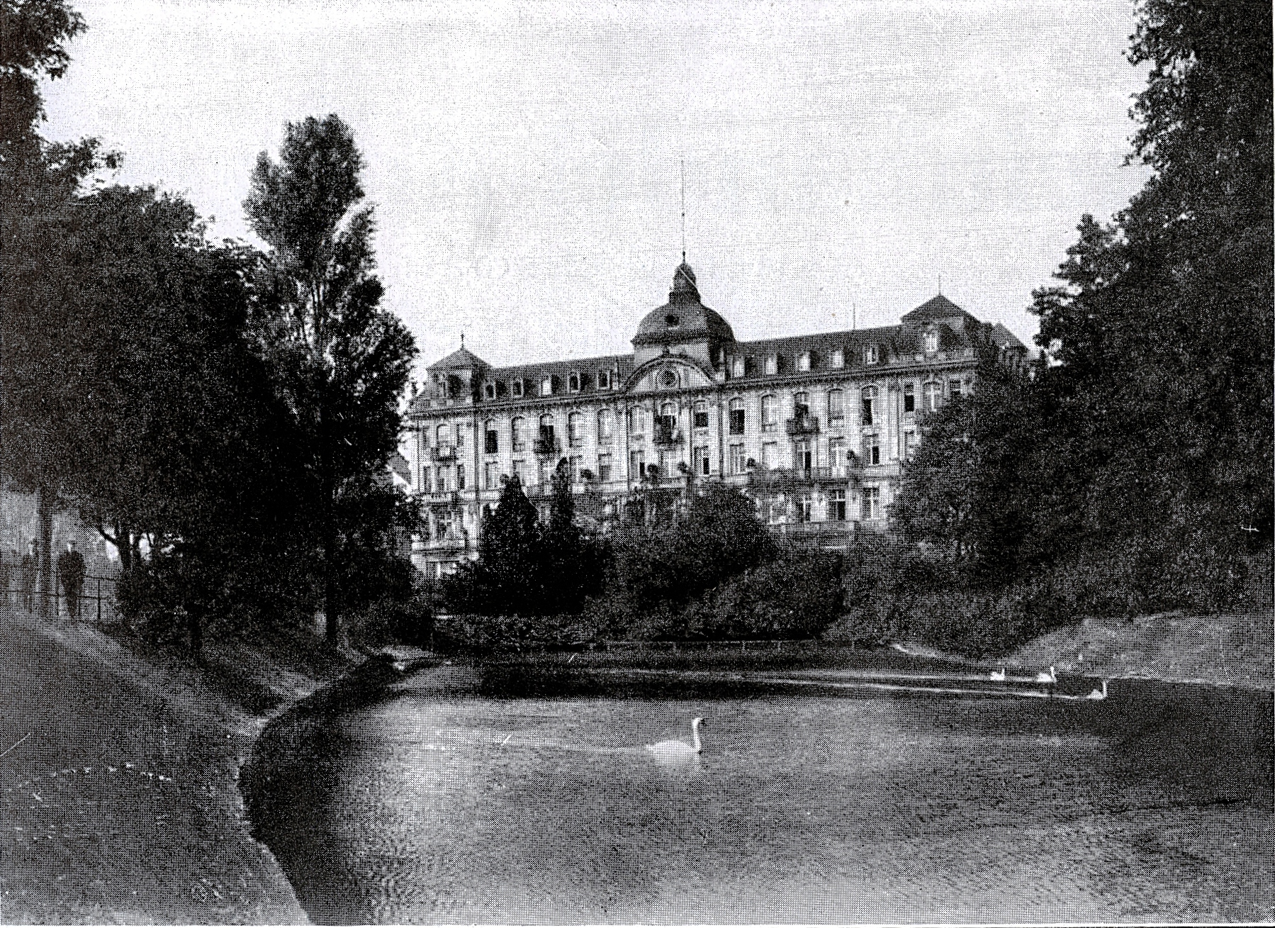 t